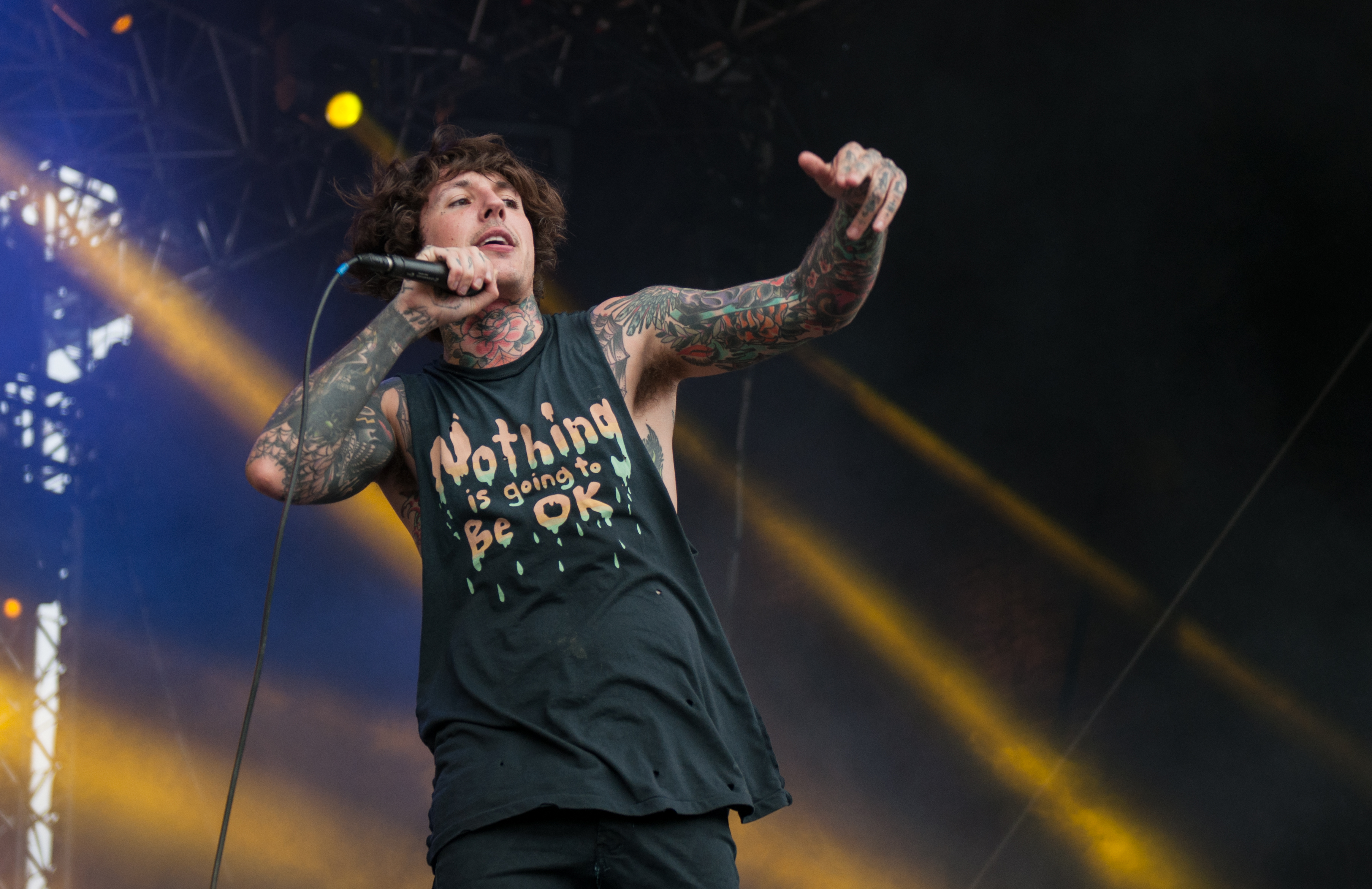 Bring Me the Horizon at Vainstream Rockfest 2014